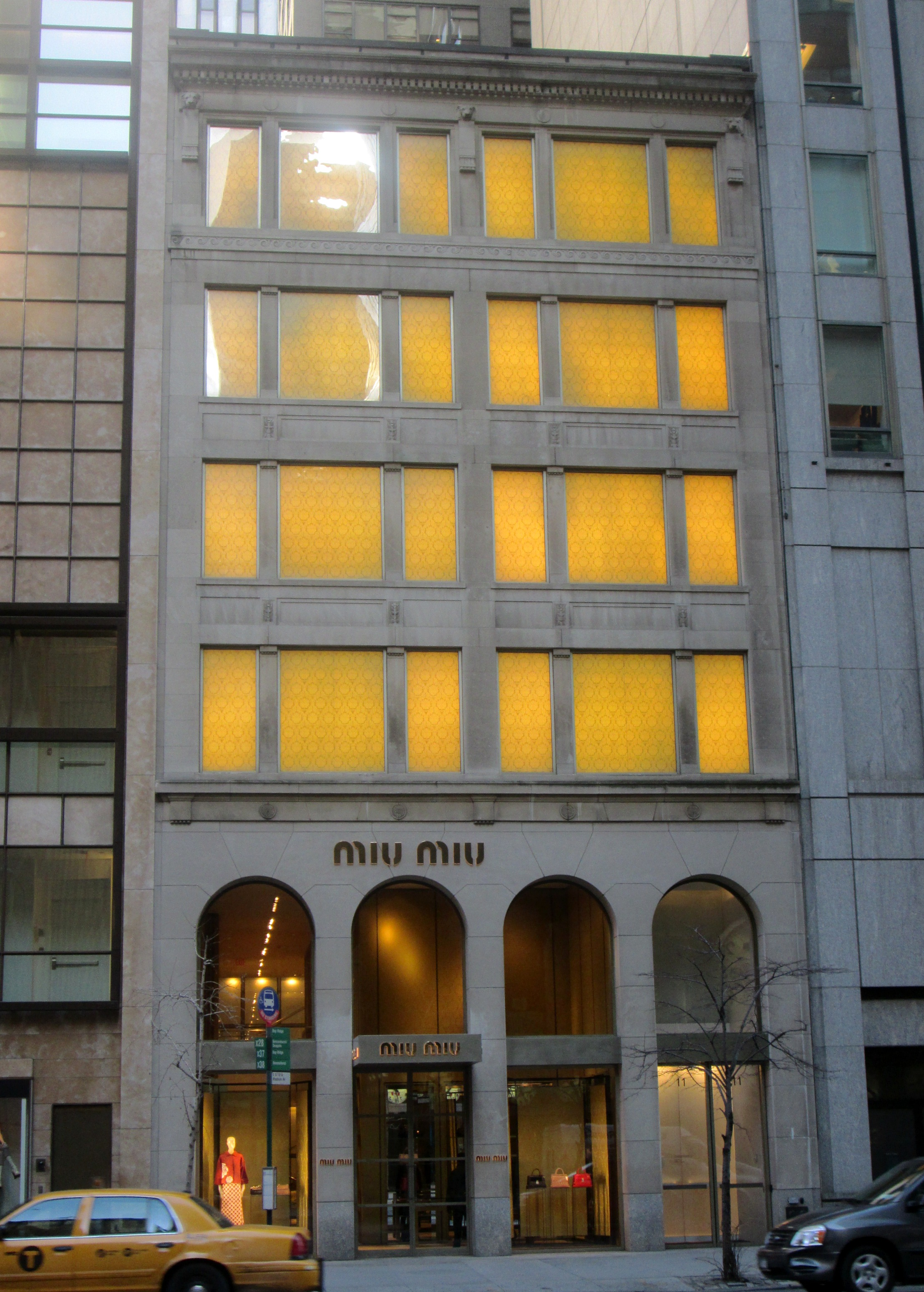 11 East 57th Street between Fifth and Madison Avenues in Midtown Manhattan was built in 1930. (Source: NYC GIS map)